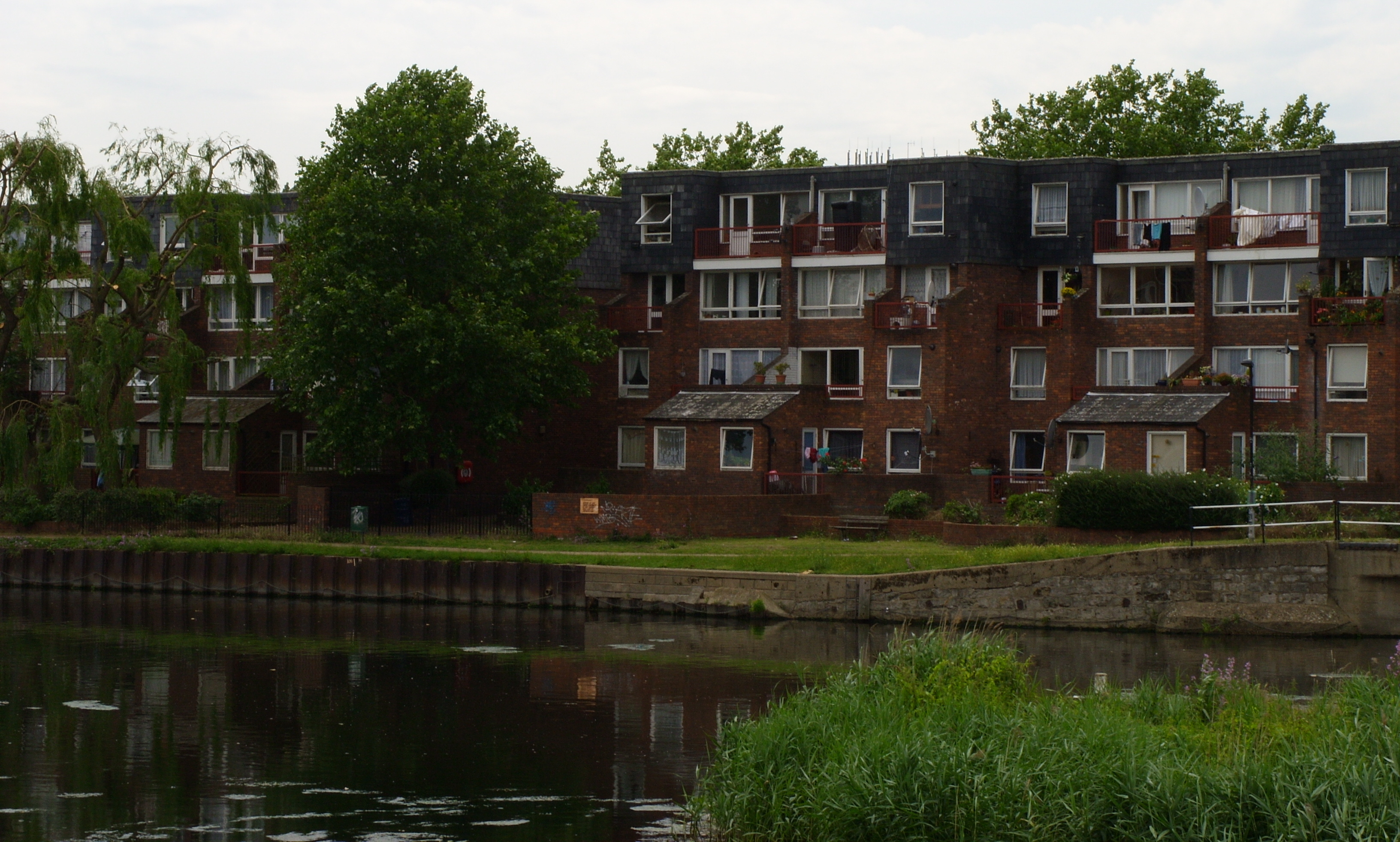 Rear of houses on Reedham Close, N17, backing onto the River Lea